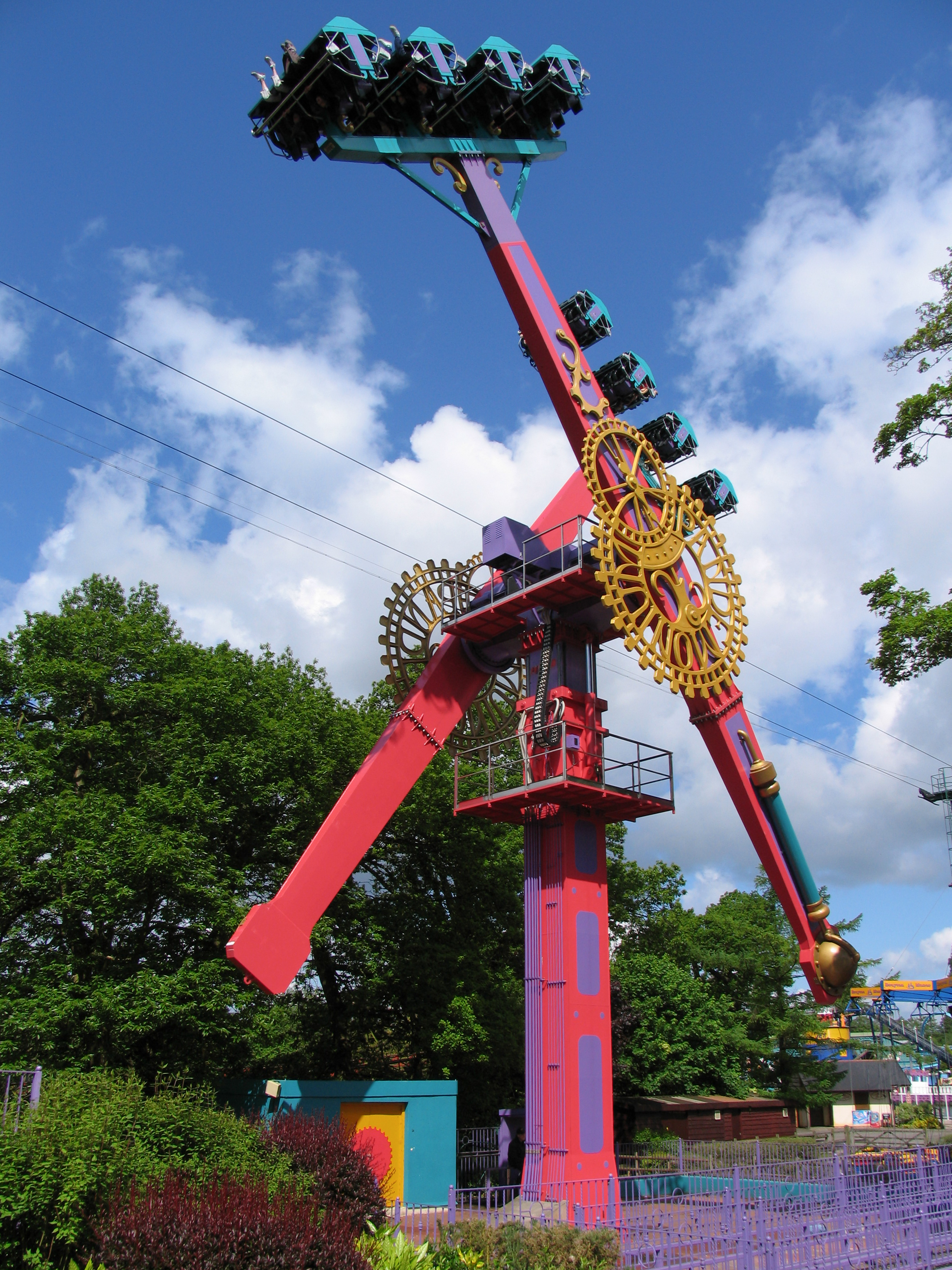 Fabbri Pandemonium at Drayton Manor Theme Park